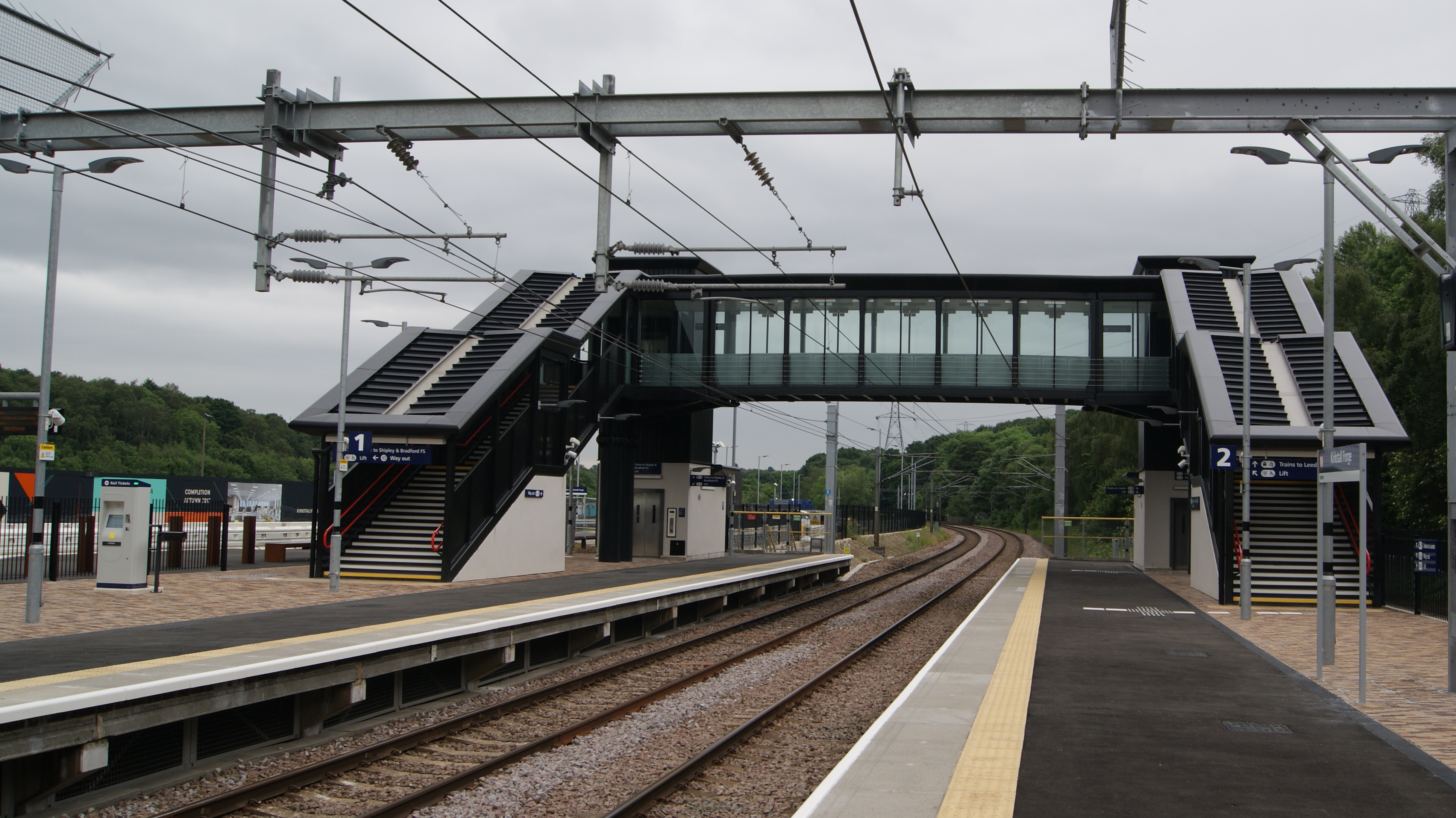 Opening day, Kirkstall Forge railway station, Kirkstall, Leeds, West Yorkshire. At present only one train stops in each direction every hour (apparently more at peak hours) which seems strange given the heavy traffic made up of local commuter trains on this line. Taken on the afternoon of Sunday the 19th of June 2016.